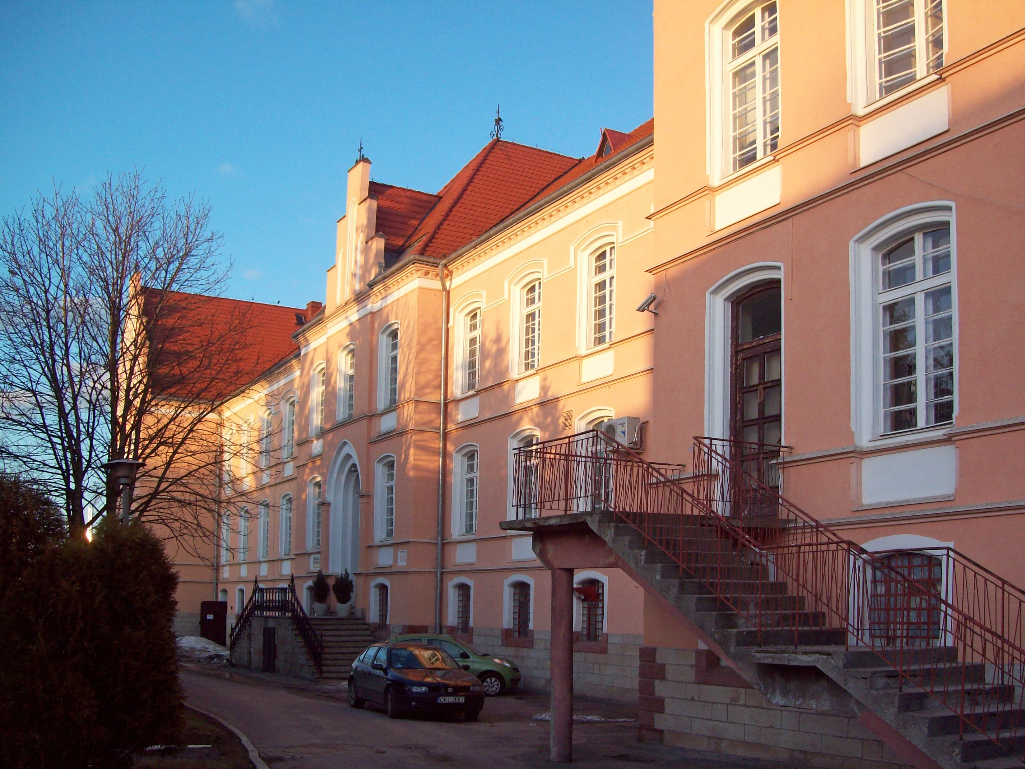 Building "F"